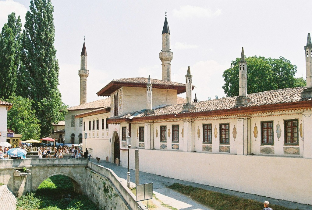 Northern entrance and the surrounding buildings of Hansaray in Bakhchisaray, Crimea.